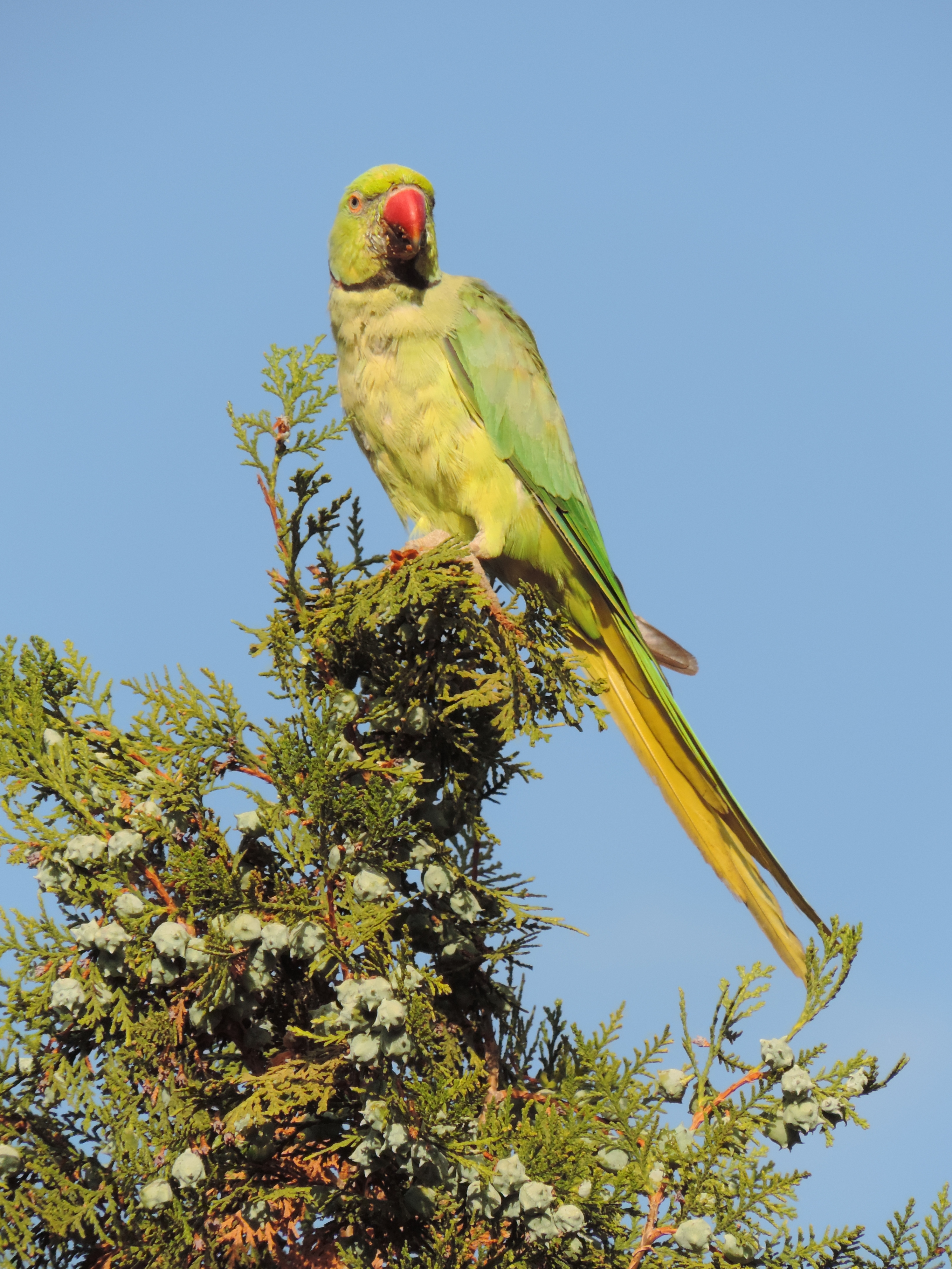 Psittacula krameri feeding on seeds of a Cypress tree in Israel